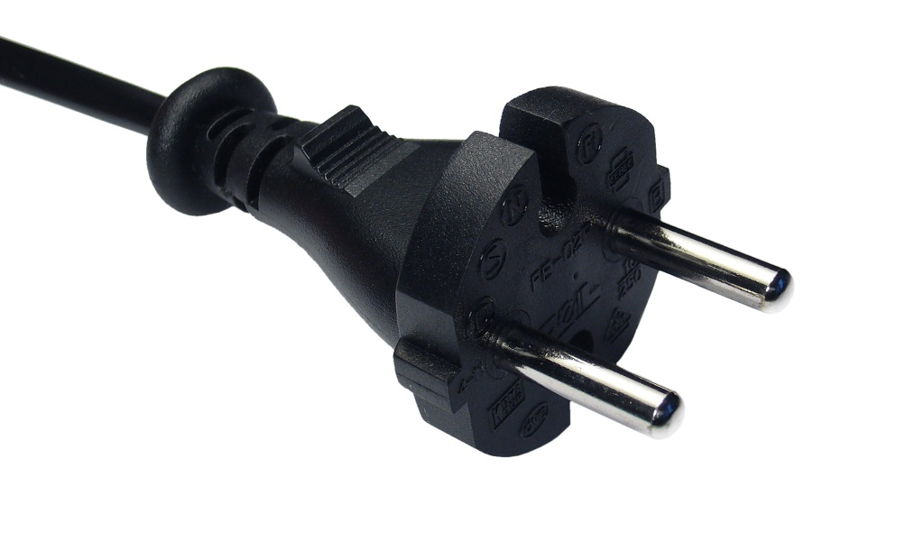 CEE 7/17 contour plug (for gadgets that do not need any earthing).